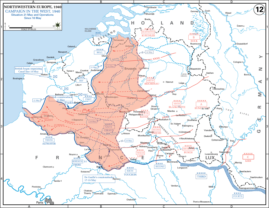 The German advance to the English Channel between 16 May and 21 May of 1940.